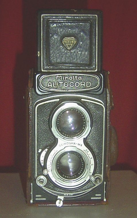 Minolta Autocord TLR camera